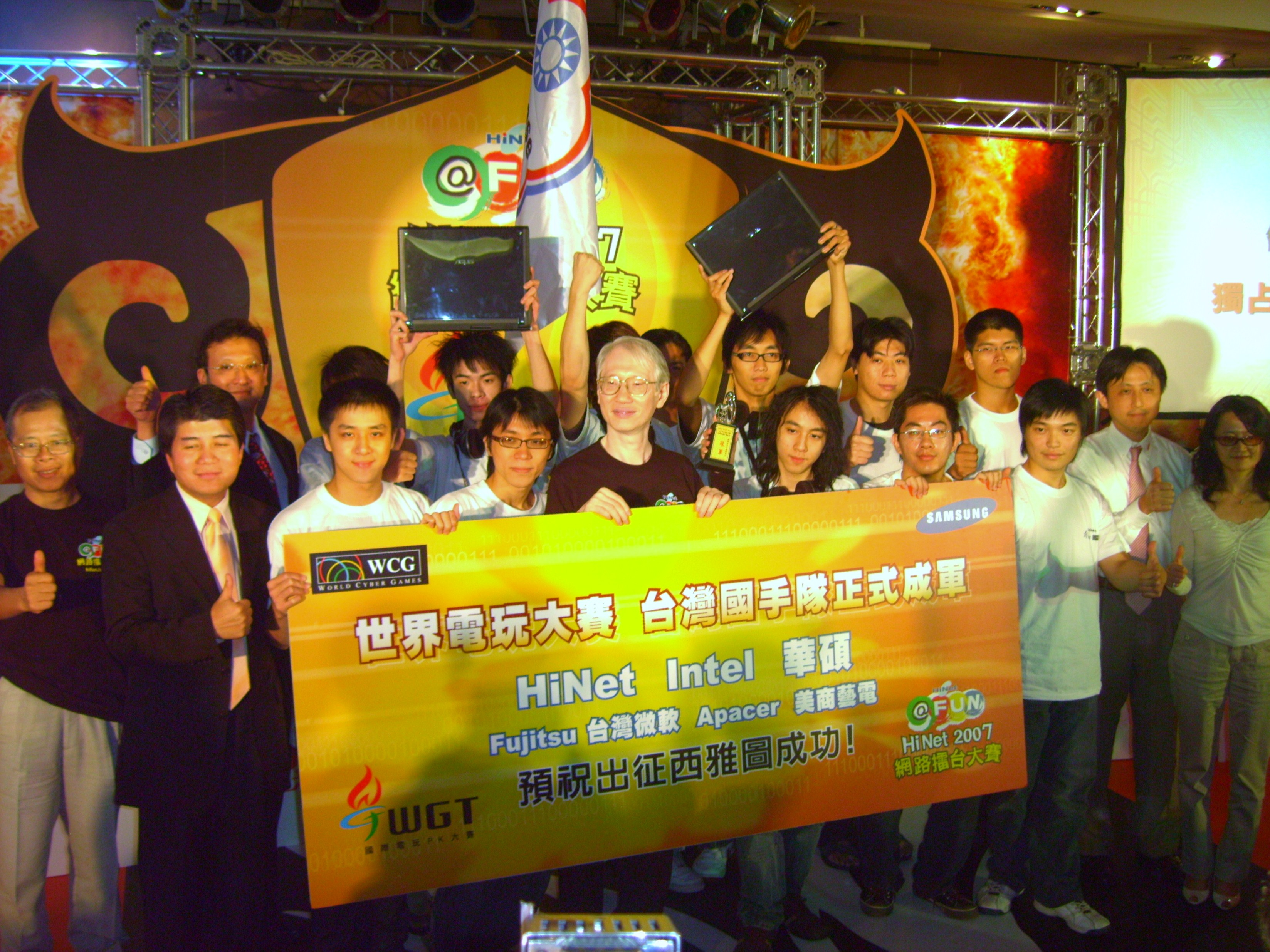 Taiwanese WCG Delegates and VIPs at 2007 HiNet, WCG, WGT Taiwanese Gaming Athletes Qualification.